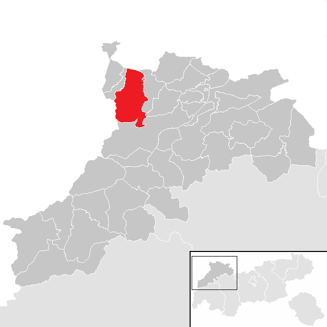 District Reutte